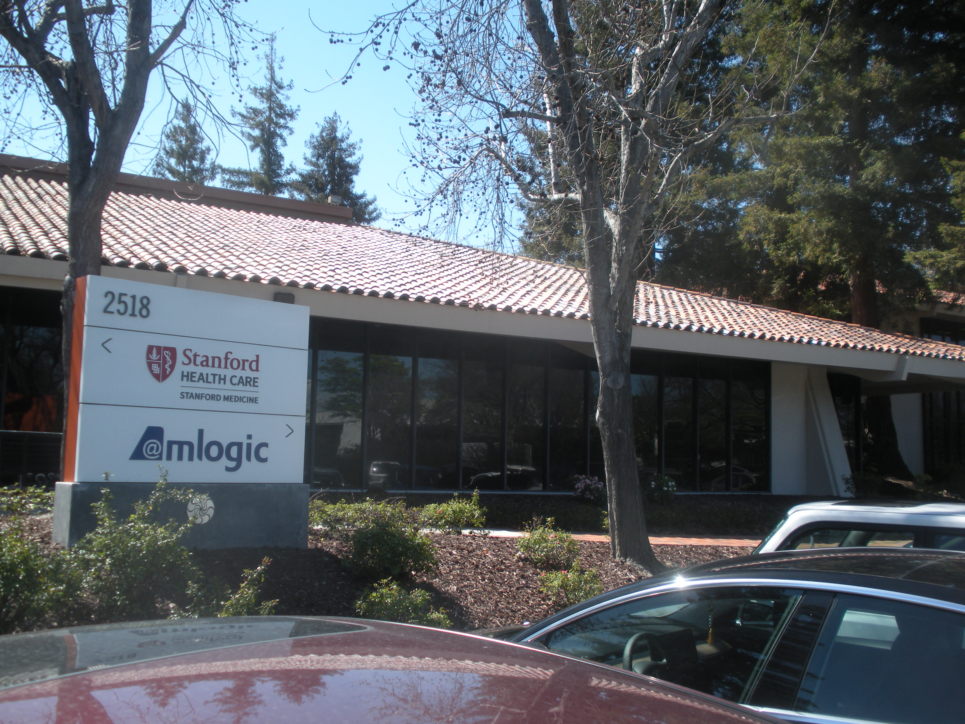 2518 Mission College Blvd in Santa Clara, California. Originally posted to my Flickr